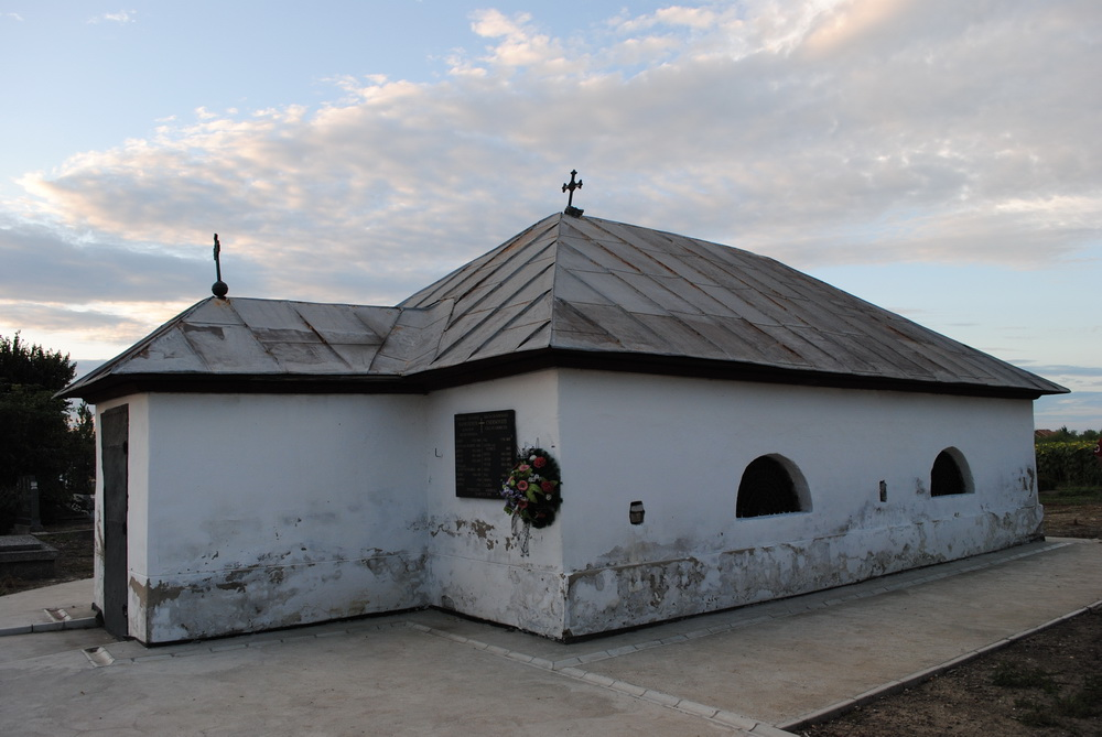 The Mausoleum is Cultural Heritage of Serbia. Grobnica je svrstana u nepokretno kulturno dobro od velikog znacaja.